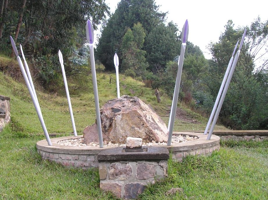 The Bisesero Genocide Memorial, near Karongi-Kibuye - Western Rwanda, which commemorates the Rwandan genocide in 1994. 40,000 people died here. There is a centre here but it is incomplete